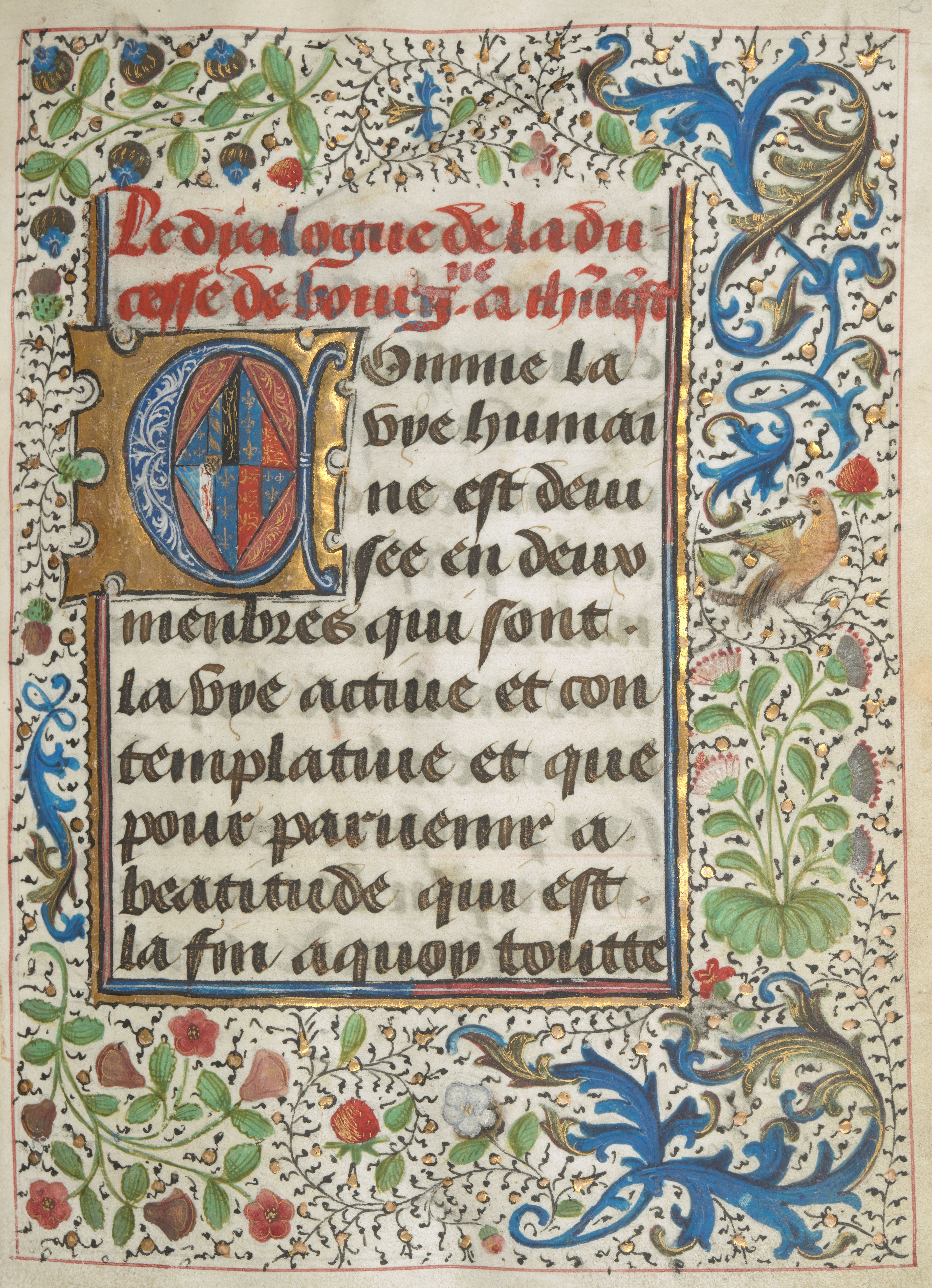 Title page containing historiated initial with the arms of Margaret of York as Duchess of Burgundy, MS Add 7970, f. 2r